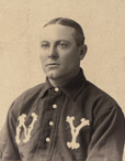 Jack O'Connor cropped from File:New York Highlanders Baseball Team, 1903.jpg Accession No.: 06_06_000176 Title: New York Highlanders Baseball Team, 1903 Caption: New York Americans. 1903 Creator: Horner, Charles J. Date: 1903 Format: photograph Description: Individual portraits on mount with decorative vignettes in ink wash. In center, portrait of Clark Griffith, pitcher. Top row, left to right, Dave Fultz, outfielder, Kid Elberfield, shortstop, Wid Conroy, third baseman, Jack Chesbro, pitcher, Monte Beville, catcher, Jack O'Connor, catcher. Middle row: John Deering, pitcher, Jimmy Williams, second baseman, Griffith, Jack Zalusky, catcher, Lefty Davis, outfielder. Bottom row: Wee Willie Keeler, Jesse Tannehill, pitcher, Harry Howell, pitcher, Herm McFarland, outfielder, John Ganzel, first baseman. BPL Collection: McGreevey Collection BPL Department: Print Subject: Baseball--History New York Yankees (Baseball team)